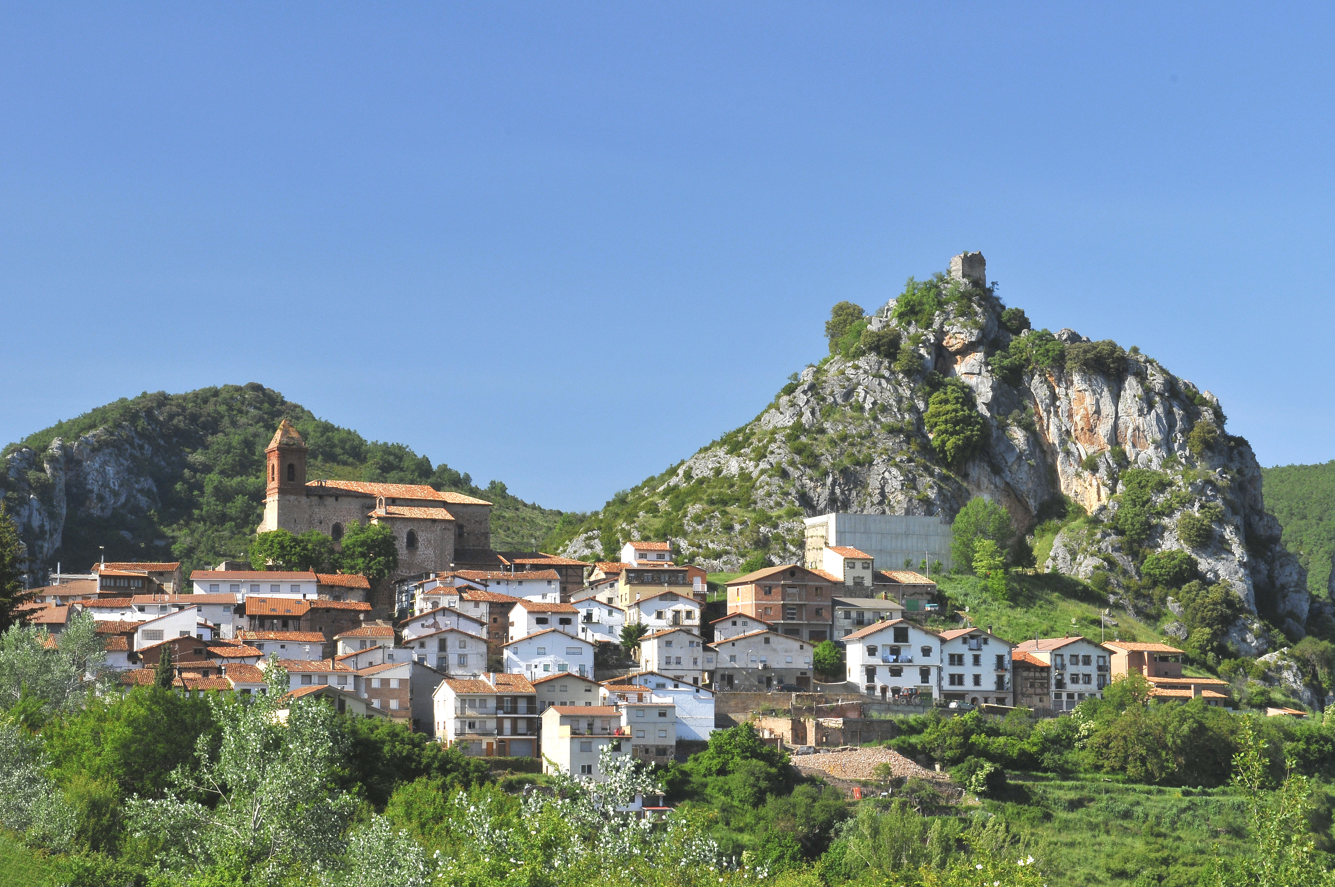 The village and its surroundings. Nieva de Cameros, La Rioja, Spain